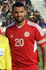 Iran v Lebanon at the 2015 AFC Asian Cup qualifiers.